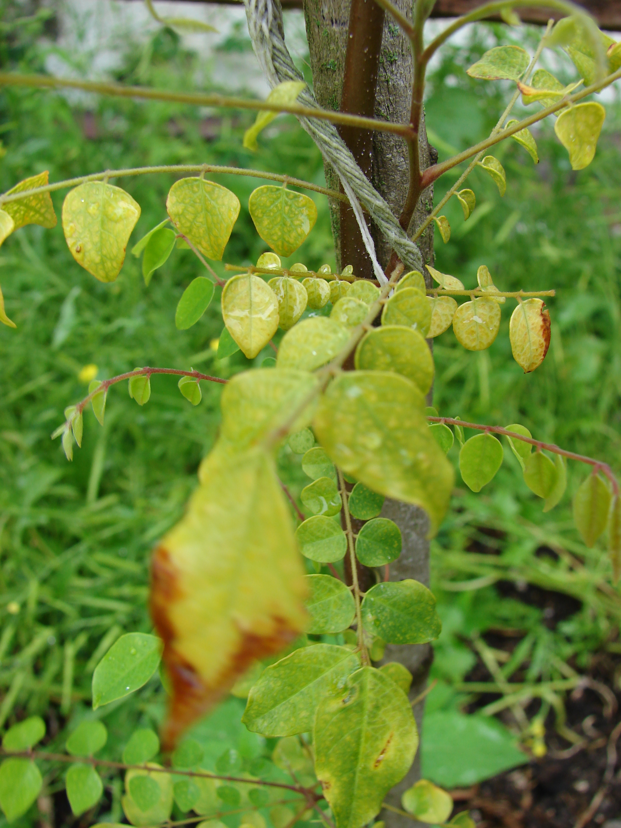 Averrhoa carambola (leaves). Location: Midway Atoll, Water plant Sand Island